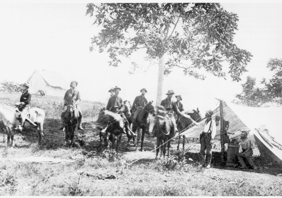 American Imperialism in Cuba